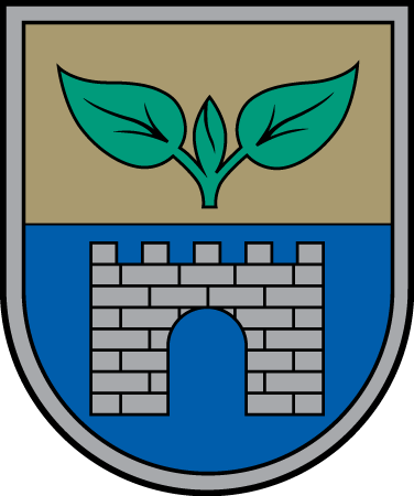 Coat of arms of Salaspils Municipality, Latvia.